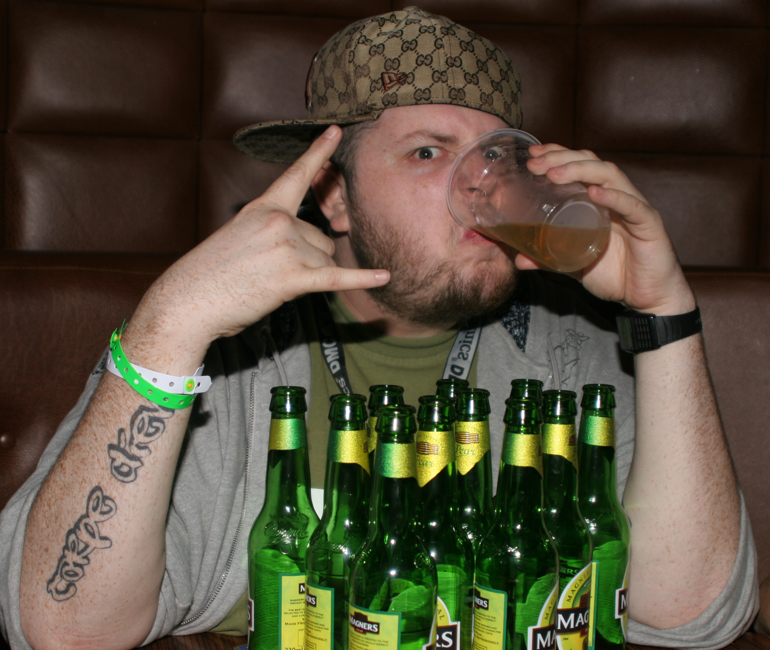 Stig of the Dump promo shot for DMC Championships 2009